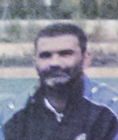 Group photo before qualifications for Euro 2004 got under way Bosnia and Herzegovina national football team in 2002